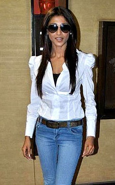 Image of Paoli Dam